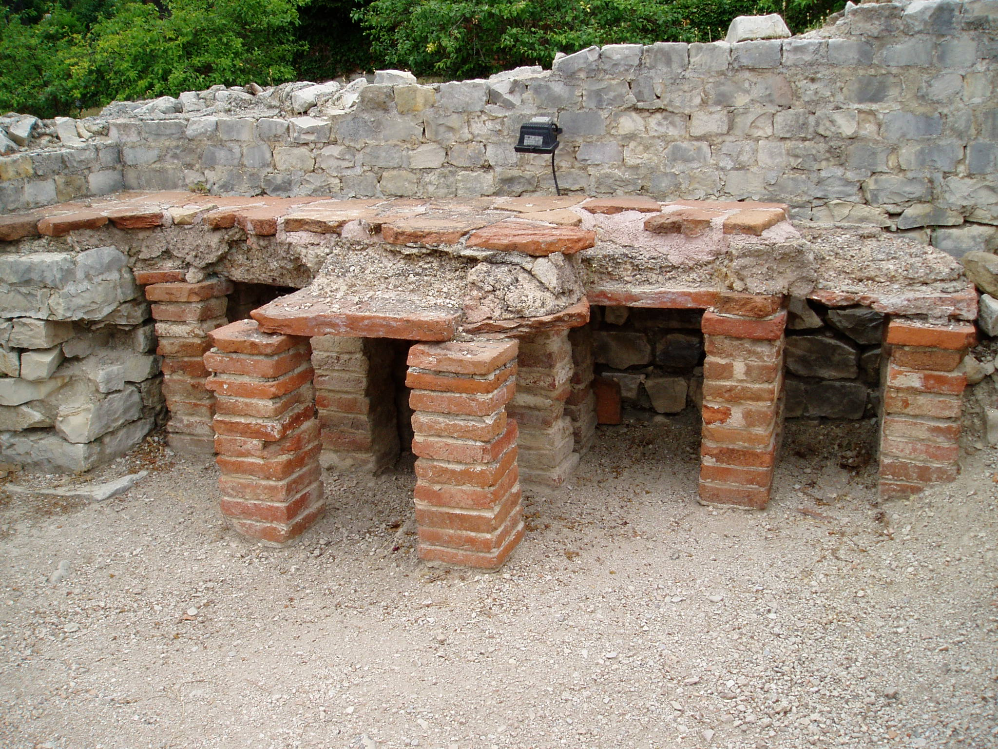 Roman Bath at the archaelogical site in Vaison-la-Romaine, France Taken by user Ohto Kokko.